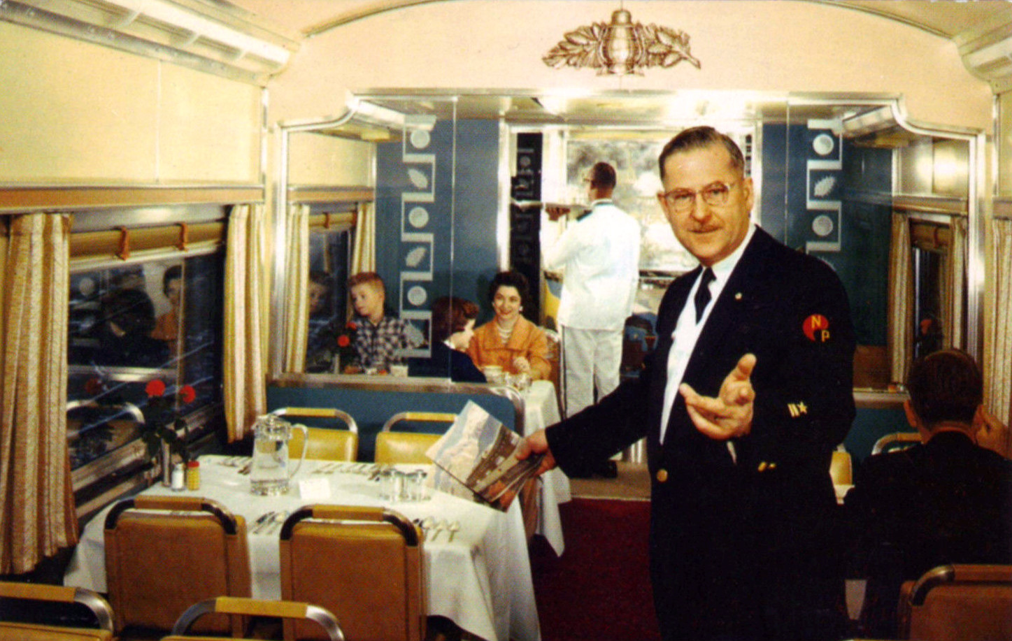 Postcard photo of the dining car on Northern Pacific Railway's North Coast Limited.